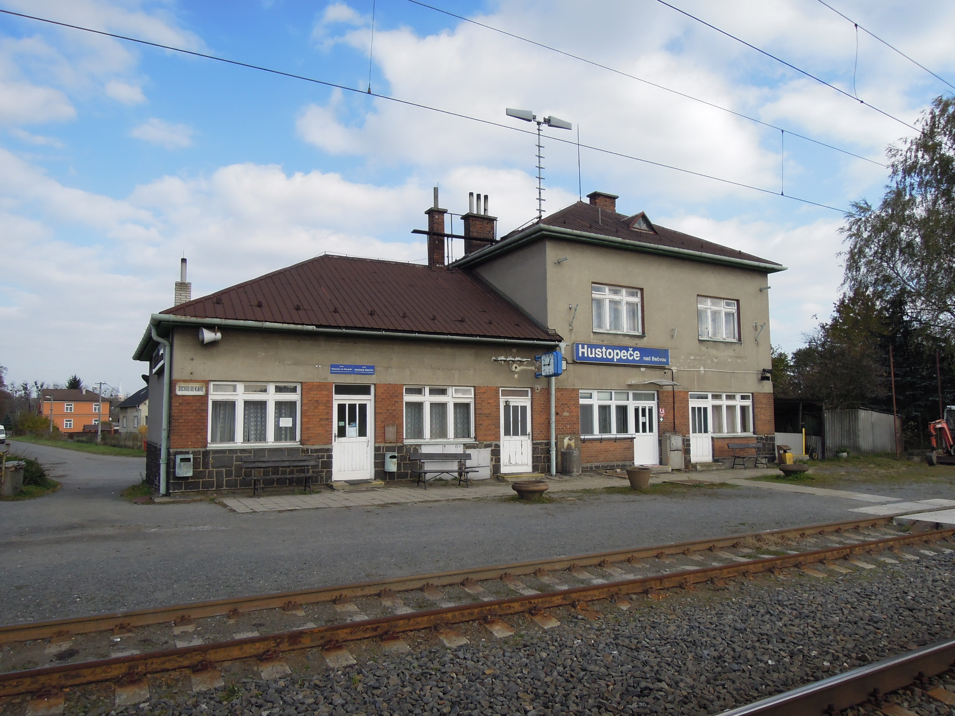 Train station in Hustopeče nad Bečvou, Přerov District, Olomouc Region, Czech Republic